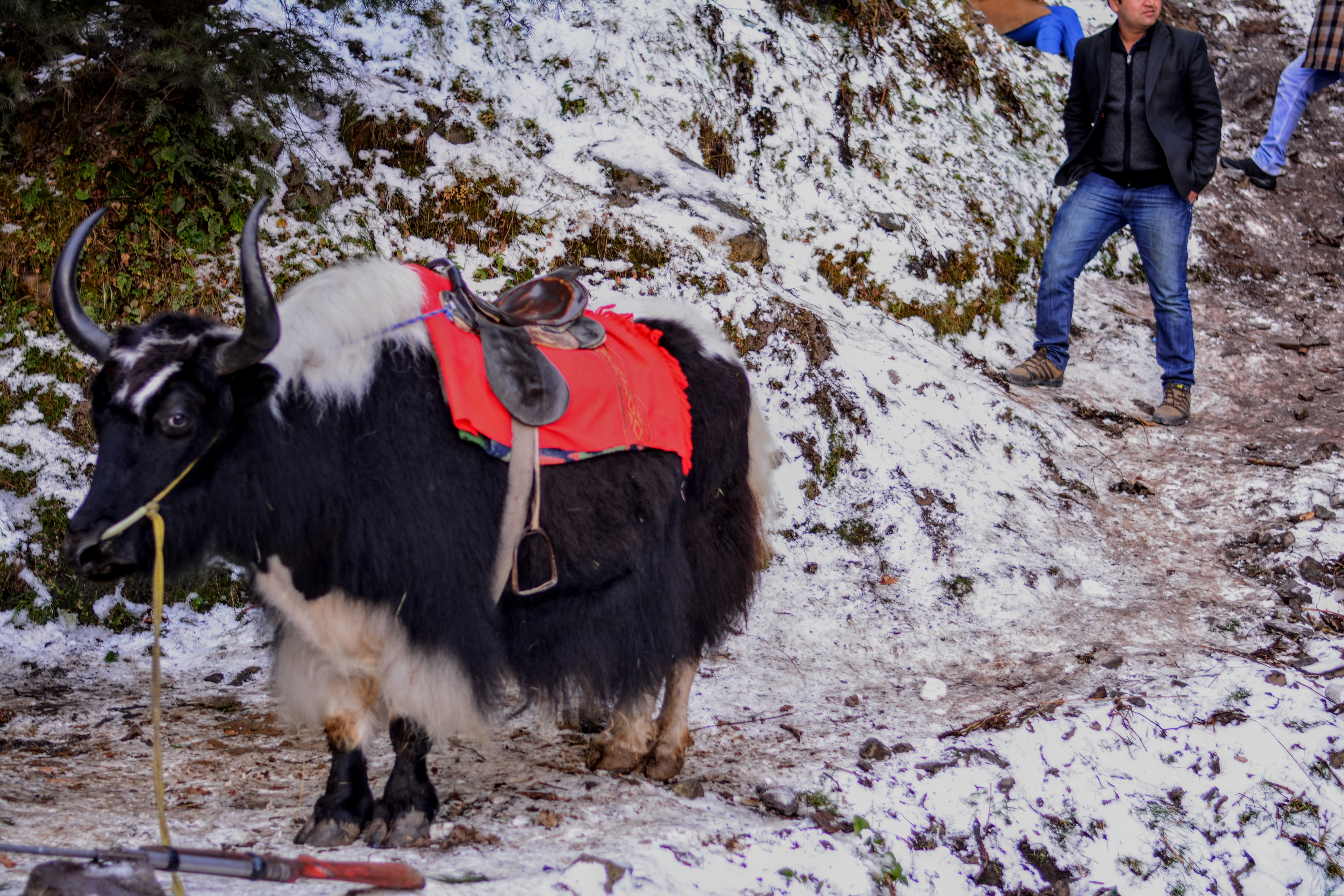 Contributed (IndianYug)